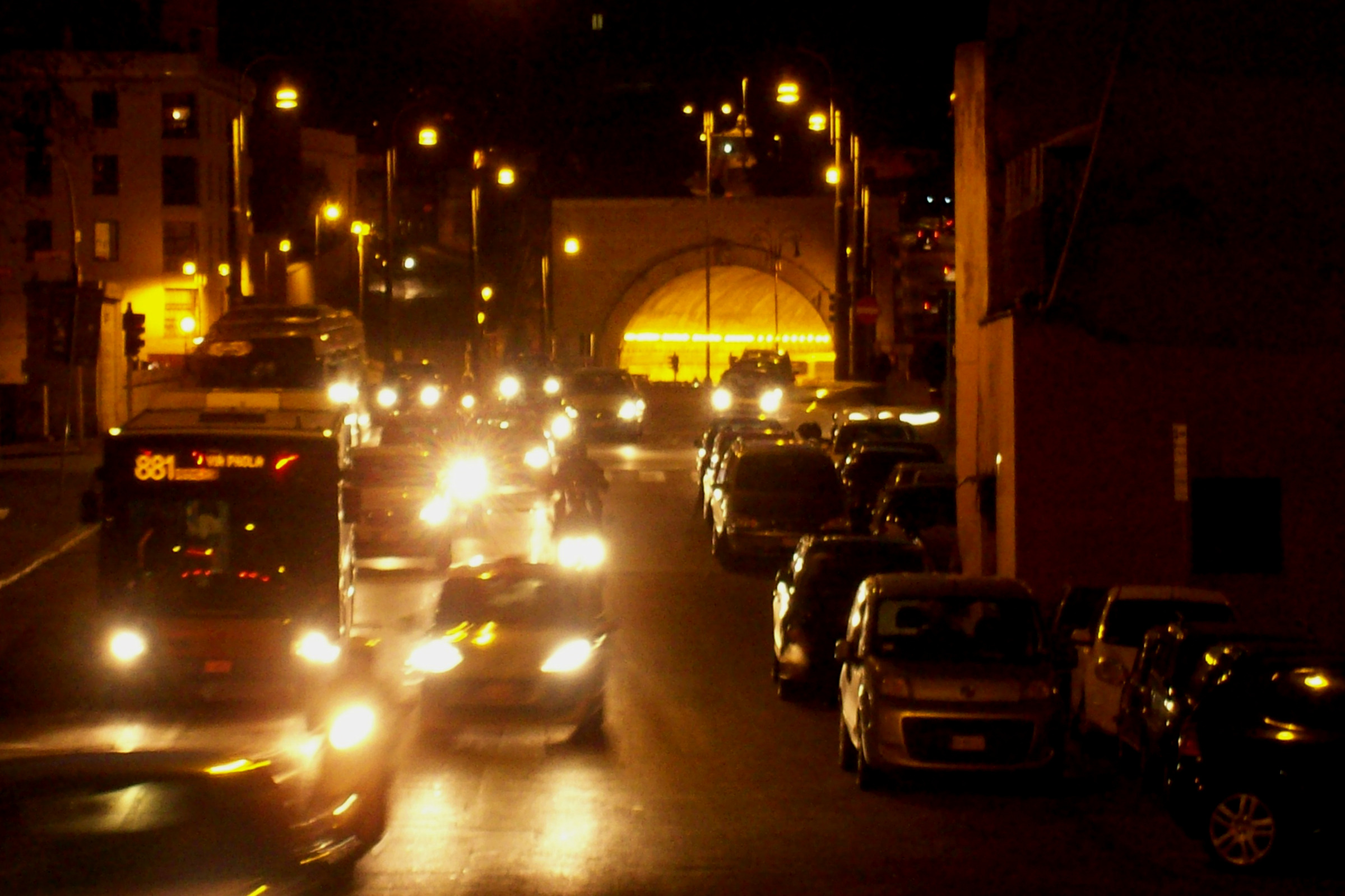 Nocturnal view of via Acciaioli in Rome (near Corso Vittorio Emanuele II). The road tunnel on the background is Galleria Principe Amedeo di Savoia-Aosta, which crosses the Gianicolo Hill.